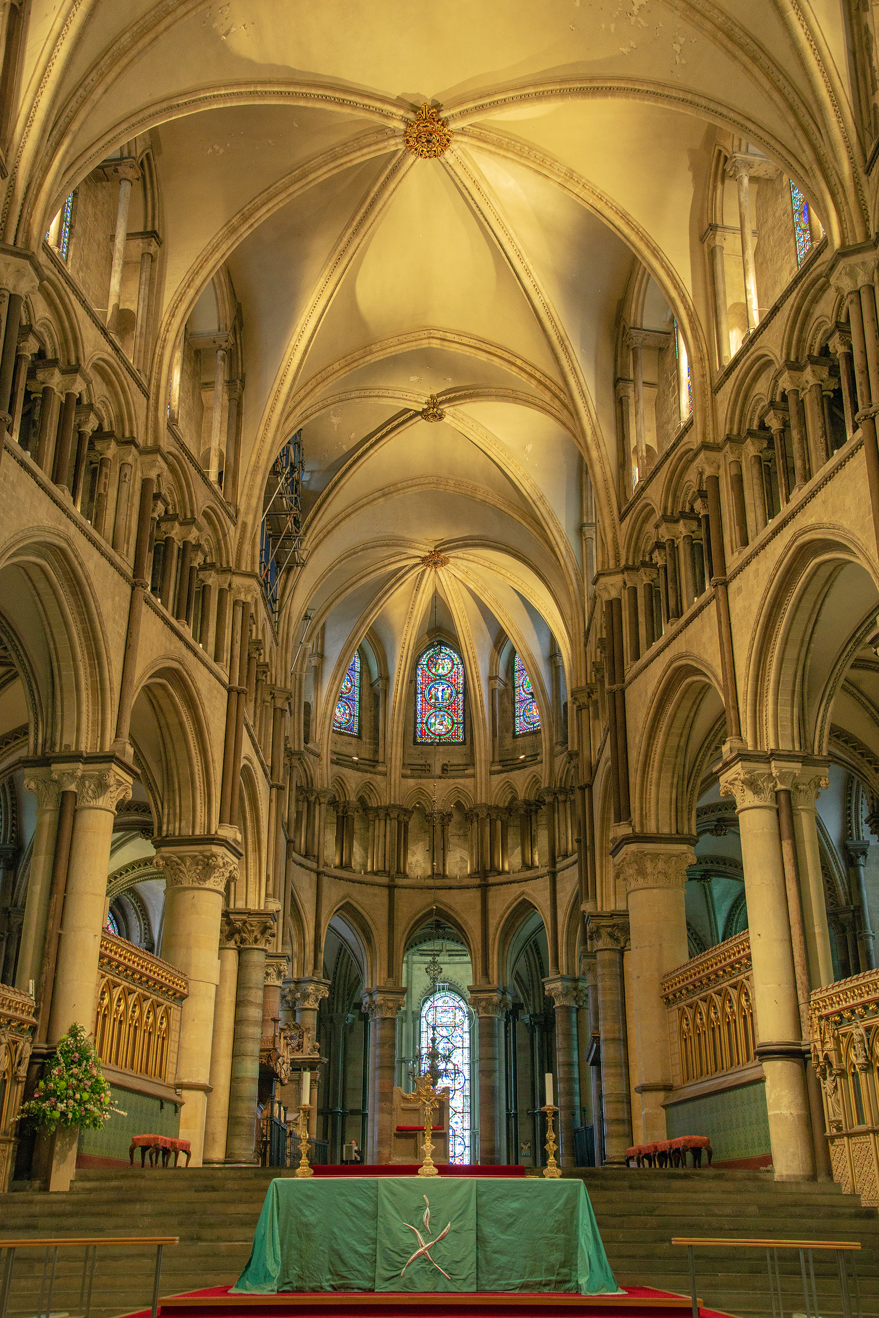 The altar area (chancel) 2018